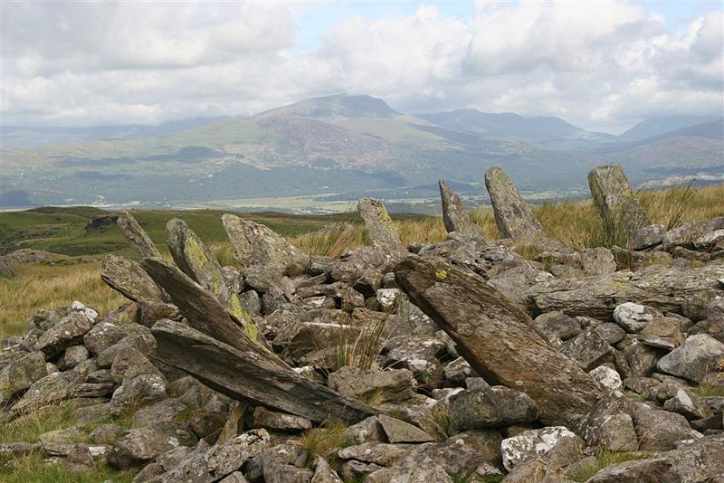 Bryn Cader Faner, Gwynedd